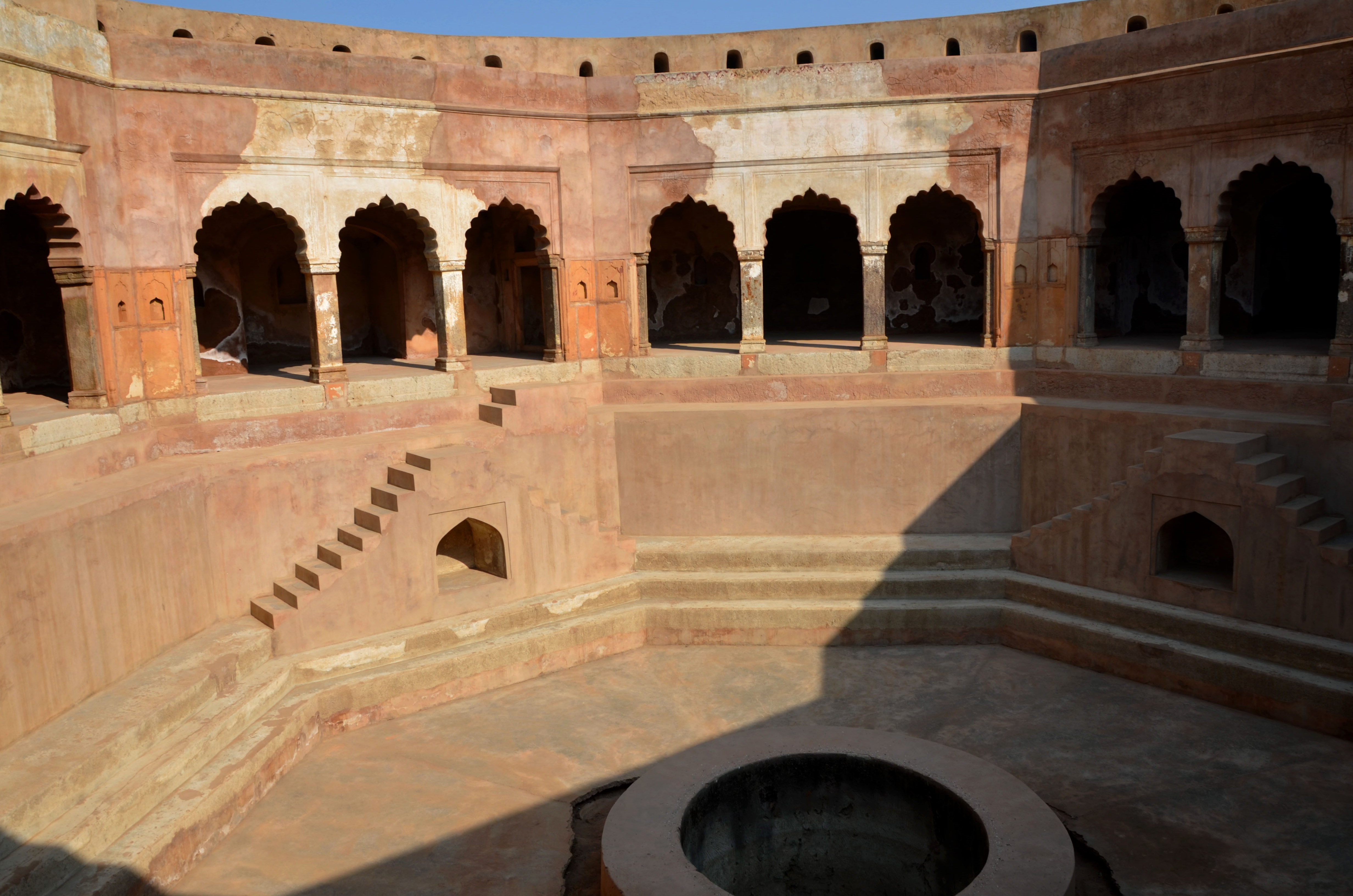 Baoli Ghaus Ali Shah, a stepwell in historic town of Farrukhnagar. Haryana